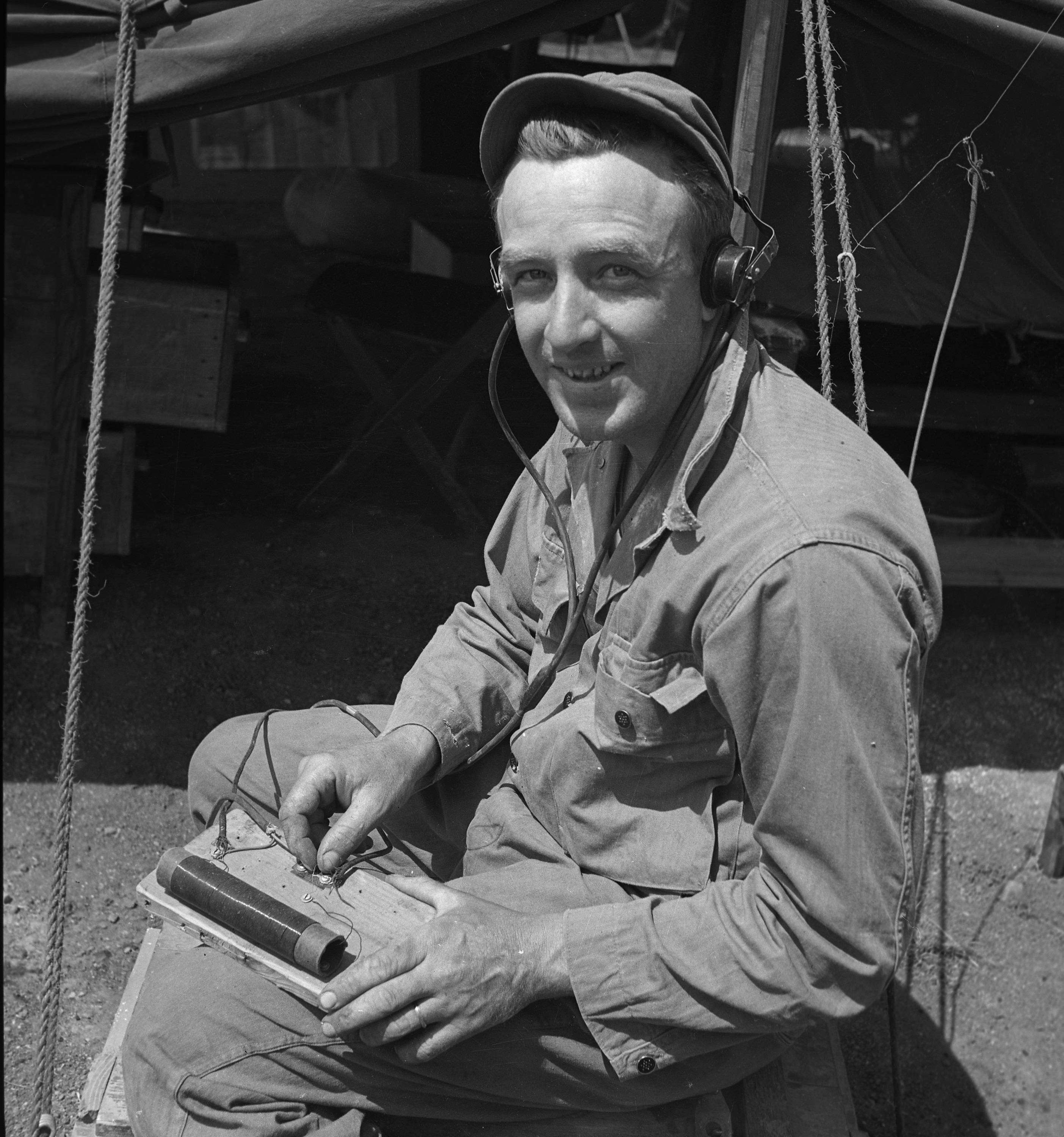 An unnamed soldier at the Anzio beachhead during World War 2 holds a foxhole radio, a crude crystal radio. During the war, soldiers were not allowed to use vacuum tube radios, because the regenerative and superheterodyne radios of the time radiated radio waves which would allow the enemy to locate them. Soldiers wanted to listen to radio broadcasts so they built crude crystal radios, which were safe. A common form, shown here, used a blue steel razor blade with a pencil lead pressed against its surface by a safety pin as a detector. The blue oxide coating on the blade formed a semiconductor diode which demodulated the radio signal, extracting the audio (sound) signal from the radio carrier wave. Photo taken for YANK magazine but never used.